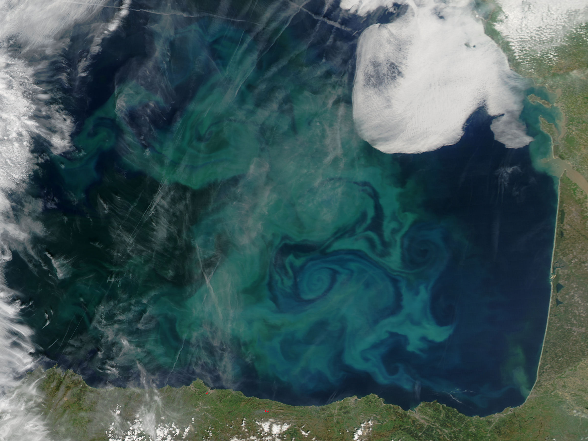 Phytoplankton bloom in the Bay of Biscay. Satellite: Aqua (EOS PM-1). Pixel size: 250m.